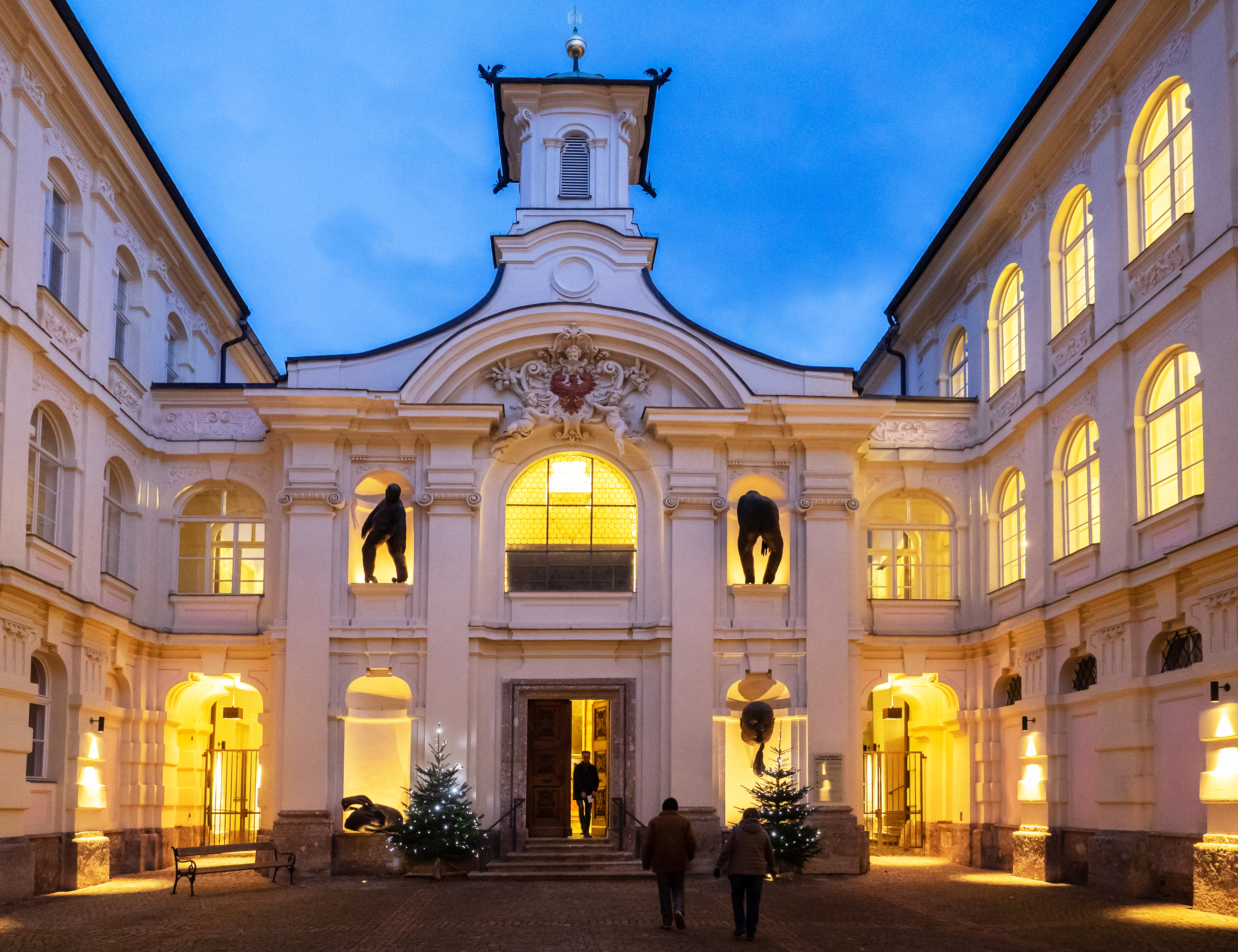 Die Georgskapelle im Tiroler Landhaus in Innsbruck This media shows the remarkable cultural object in the Austrian state of Tyrol listed by the Tyrolean Art Cadastre with the ID 123176. (on tirisMaps, pdf, more images on Commons, Wikidata)